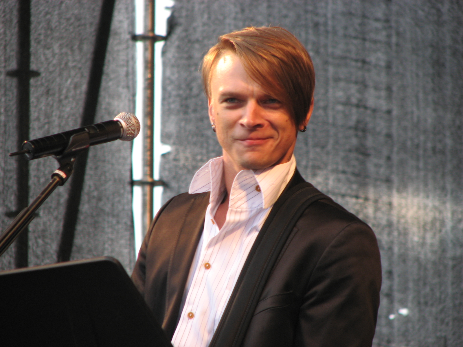 Tanel Padar performing in Tallinn Maritime Days